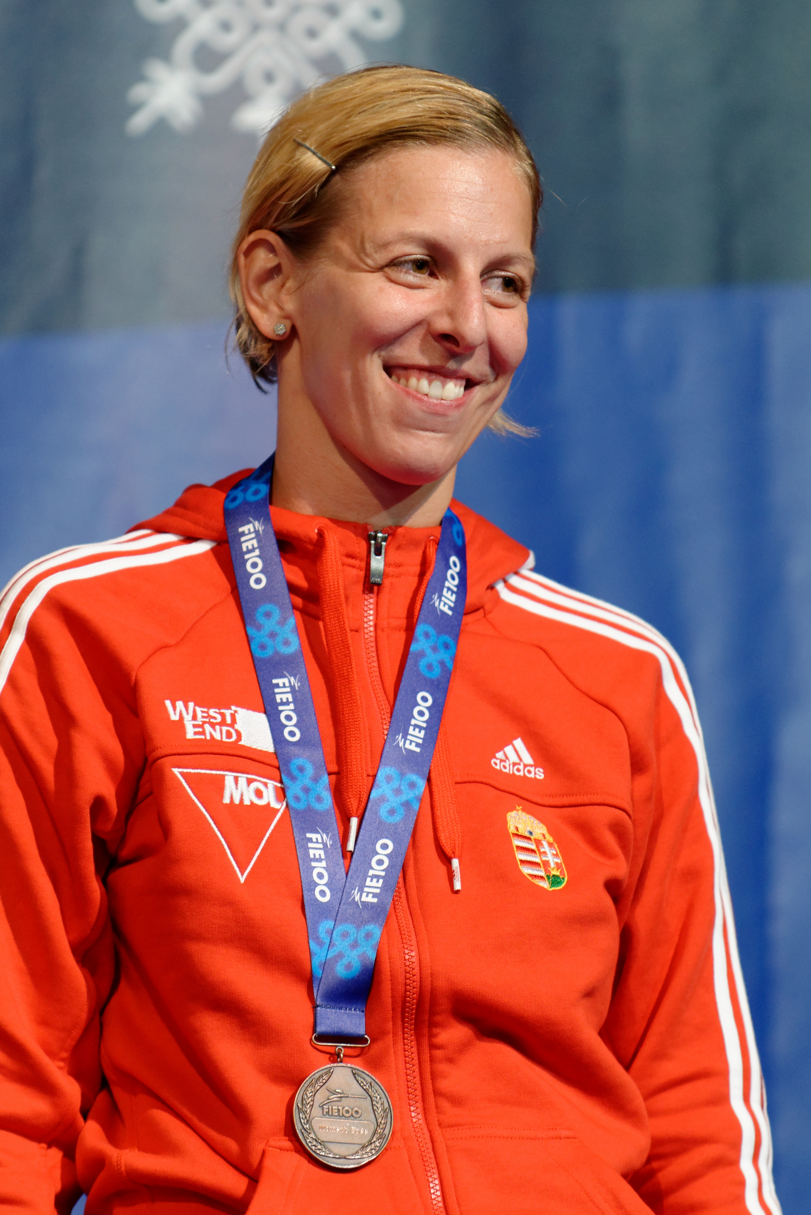 Emese Szász at the women's épée victory ceremony in the 2013 World Fencing Championships 2013 at Syma Hall in Budapest, 8 August 2013.